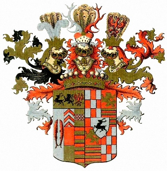 Coat of arms of the Counts of Stolberg after 1742